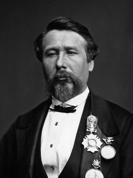 Portrait of the tightrope dancer Charles Blondin (1824-1897)